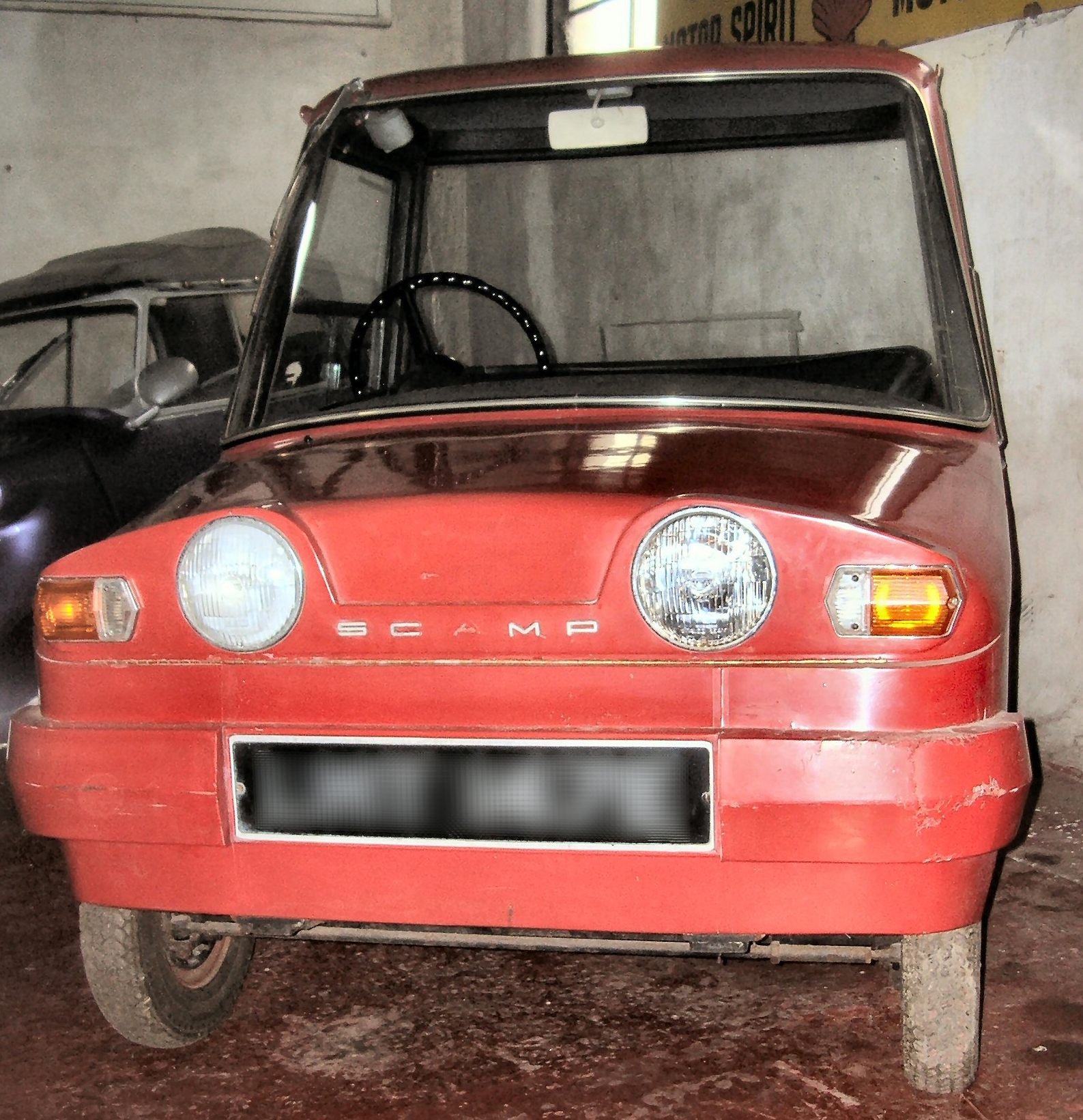 Scottish Aviation Scamp Battery-electric microcar kept at the Myreton Motor Museum, Aberlady, Scotland